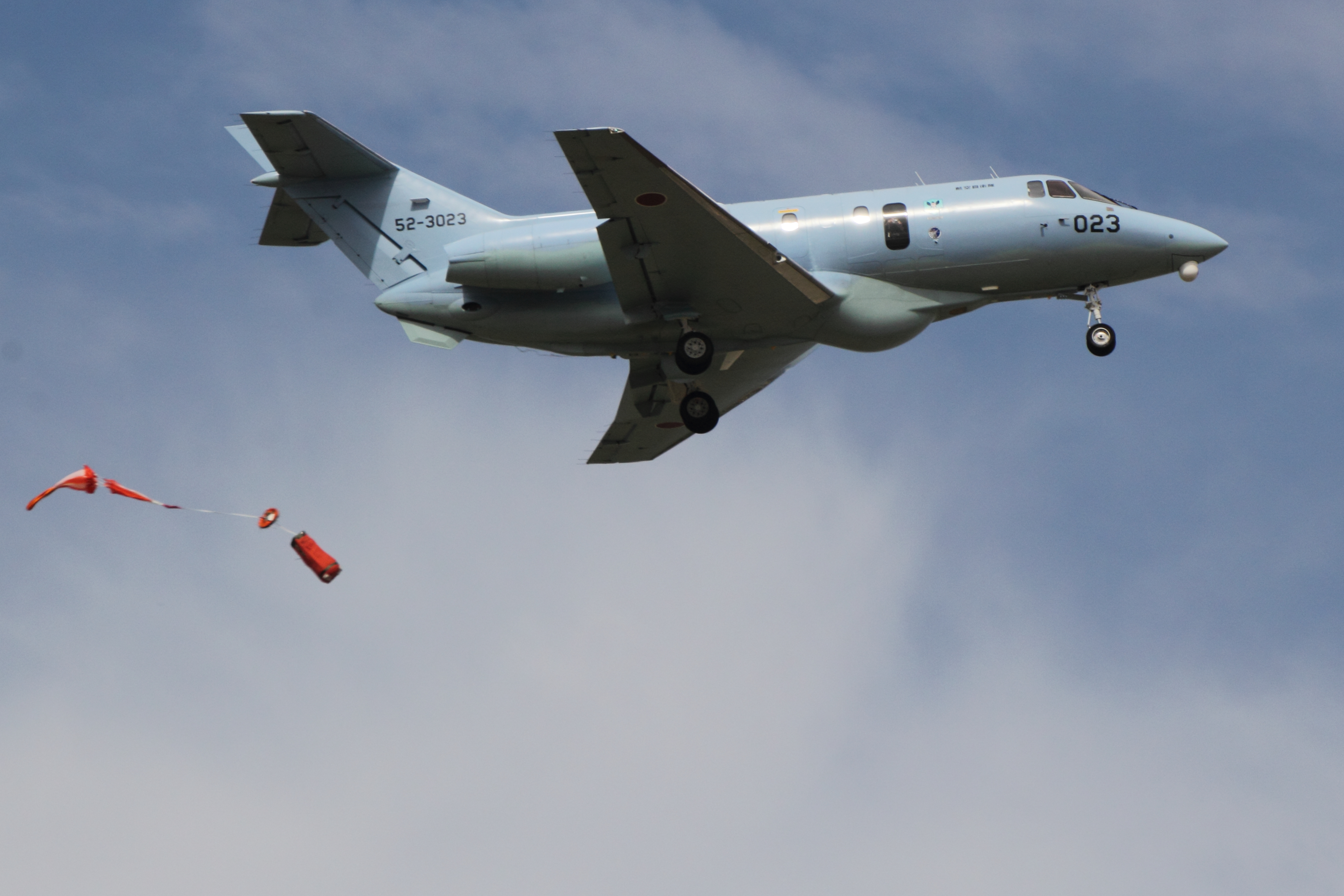 Search and rescue supplies dropping image